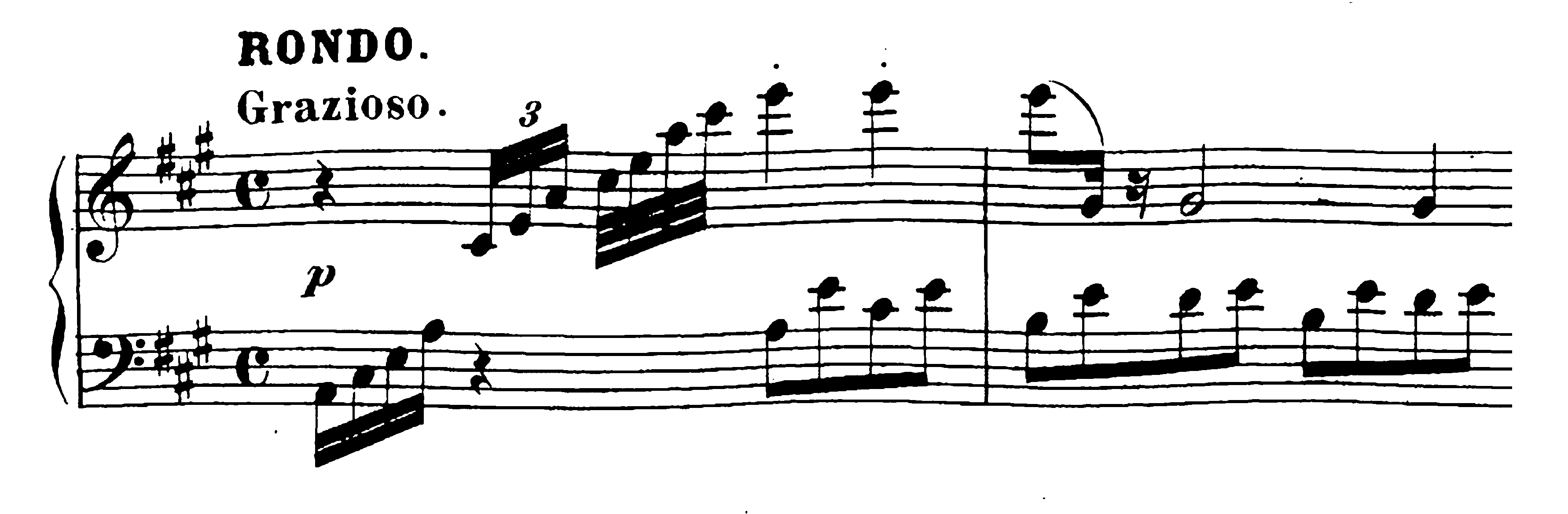 Ludwig van Beethoven, Sonata № 2, beginning of the forth movement